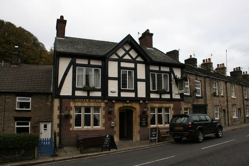 Photograph of the Holly Bush public house, Bollington, Cheshire